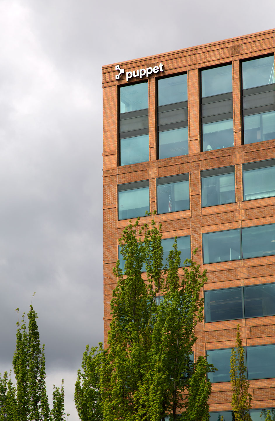 Puppet's office in downtown Portland, Oregon.